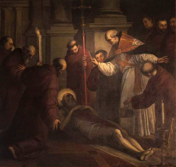 St. Girolamo of Giacomo Negretti